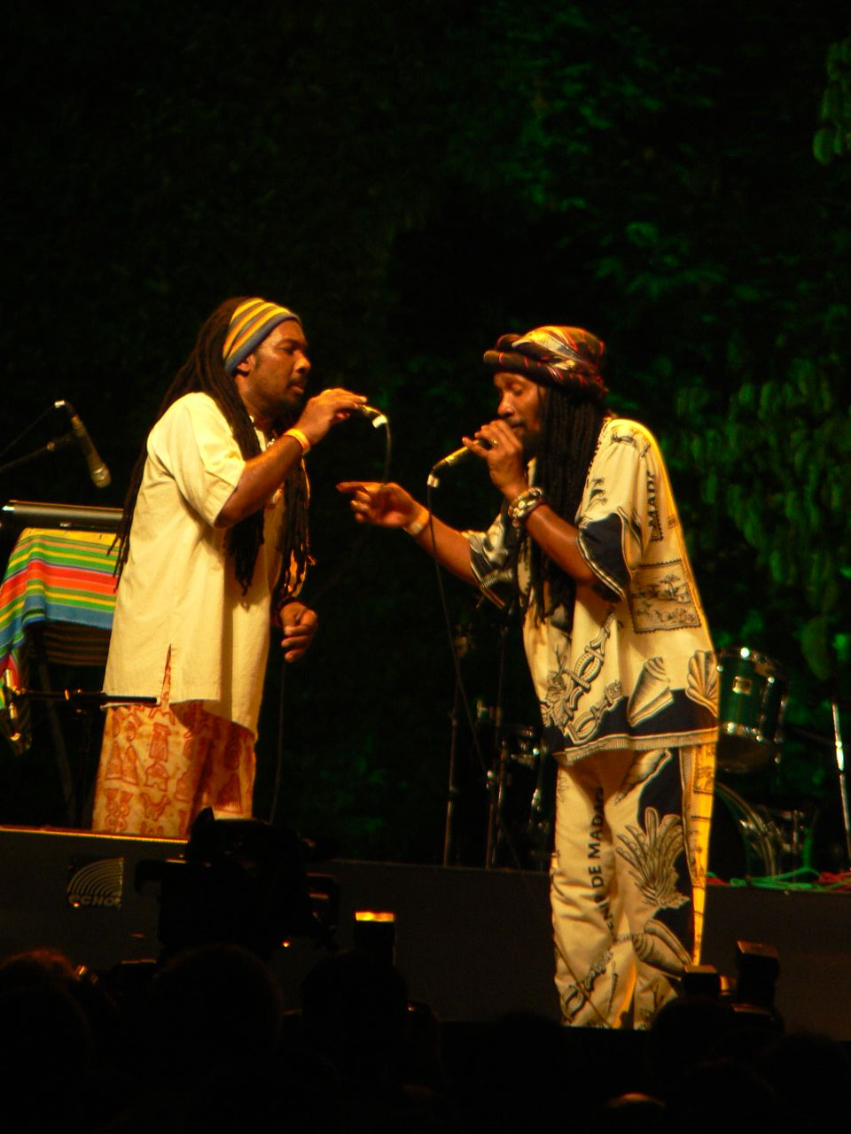 Madagascar band performing during Rainforest World Music Festival (RWMF) which was held in Kuching, Sarawak, Malaysia from 7 to 9 July 2006.